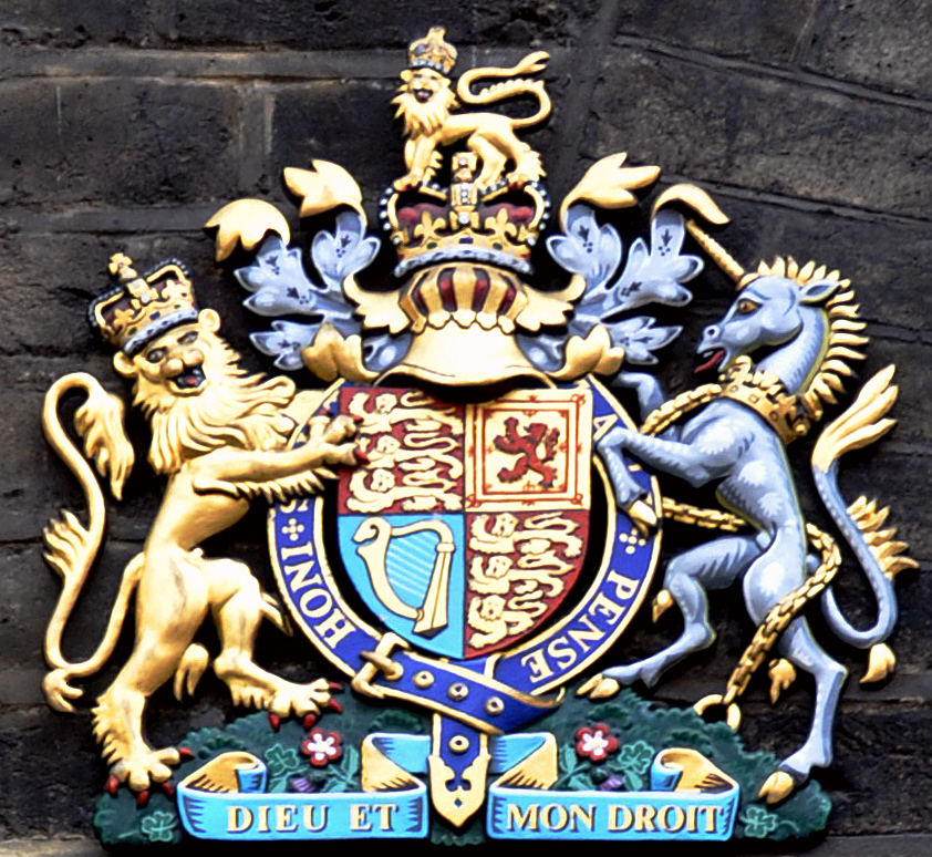 London, Ede & Ravenscroft shop on Burlington Gardens, plaques with coats of arms of the Royal family, „By Appointment to H. M. Queen Elizabeth II Robe Makers“